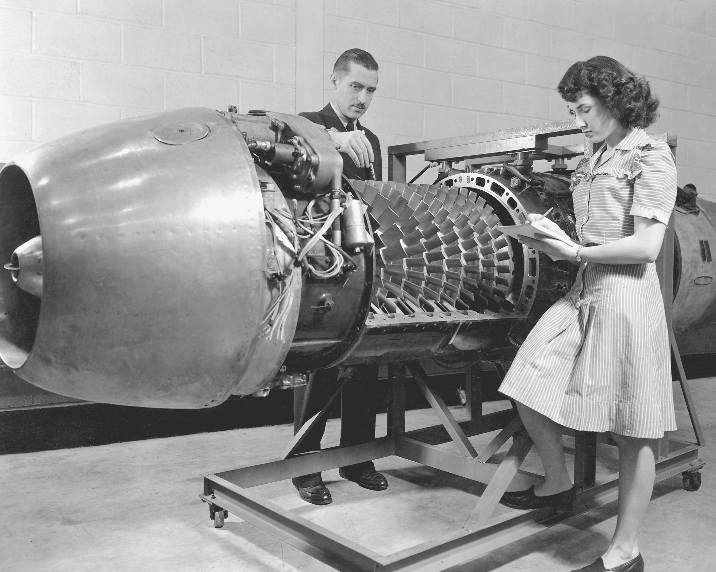 Exhibits for the Inspection by the Institute of Aeronautical Science Group-JUMO 004 Jet Propelled Engine with cover removed. Design variables and the arrangement of blades on the eight-stage axial flow compressor of a Junkers Jumo, 004, turbojet engine is shown being investigated at the Aircraft Engine Research Laboratory of the National Advisory Committee for Aeronautics, Cleveland, Ohio, now known as John H. Glenn Research Center at Lewis Field.